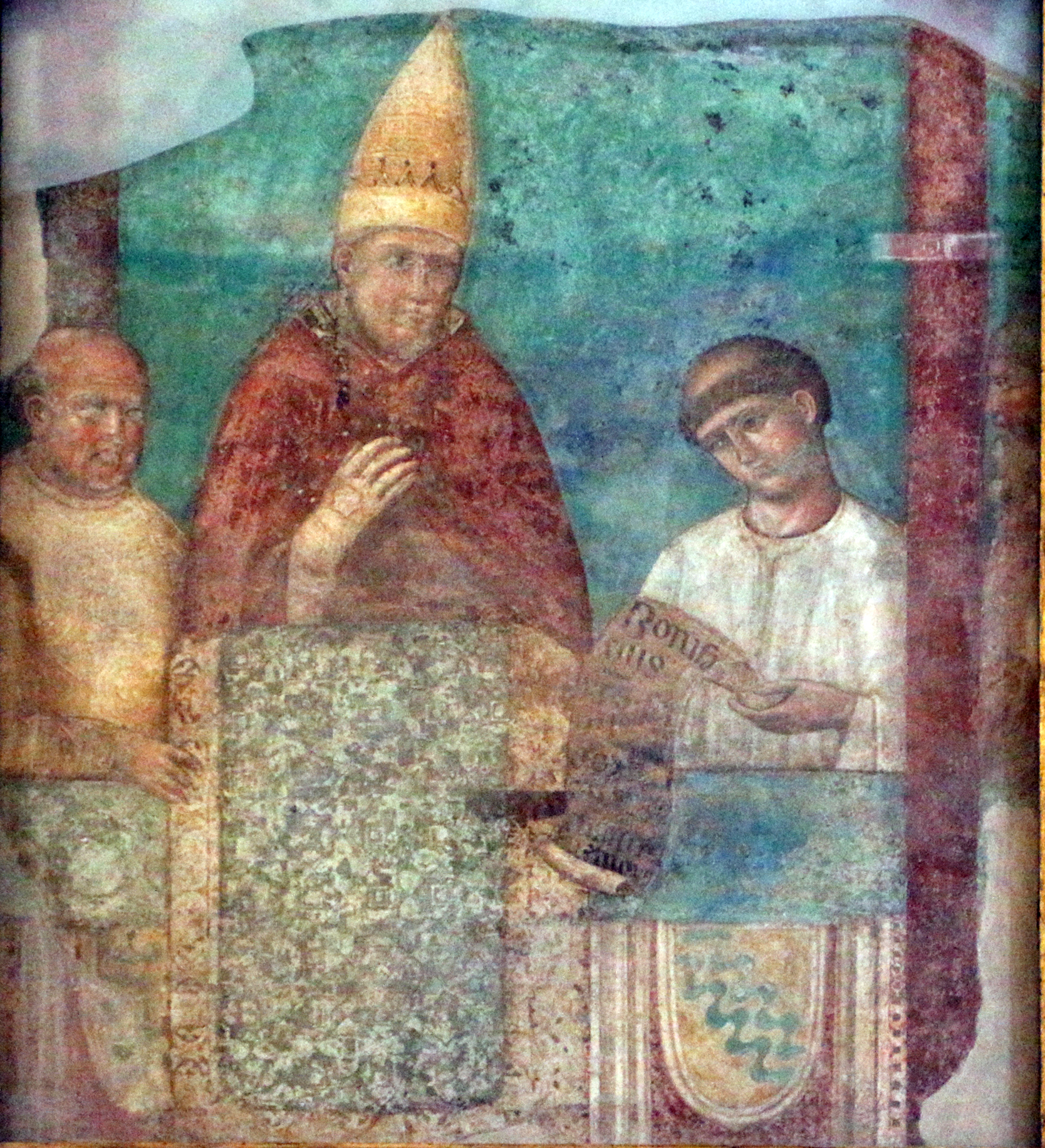 San Giovanni in Laterano (Rome) - Interior